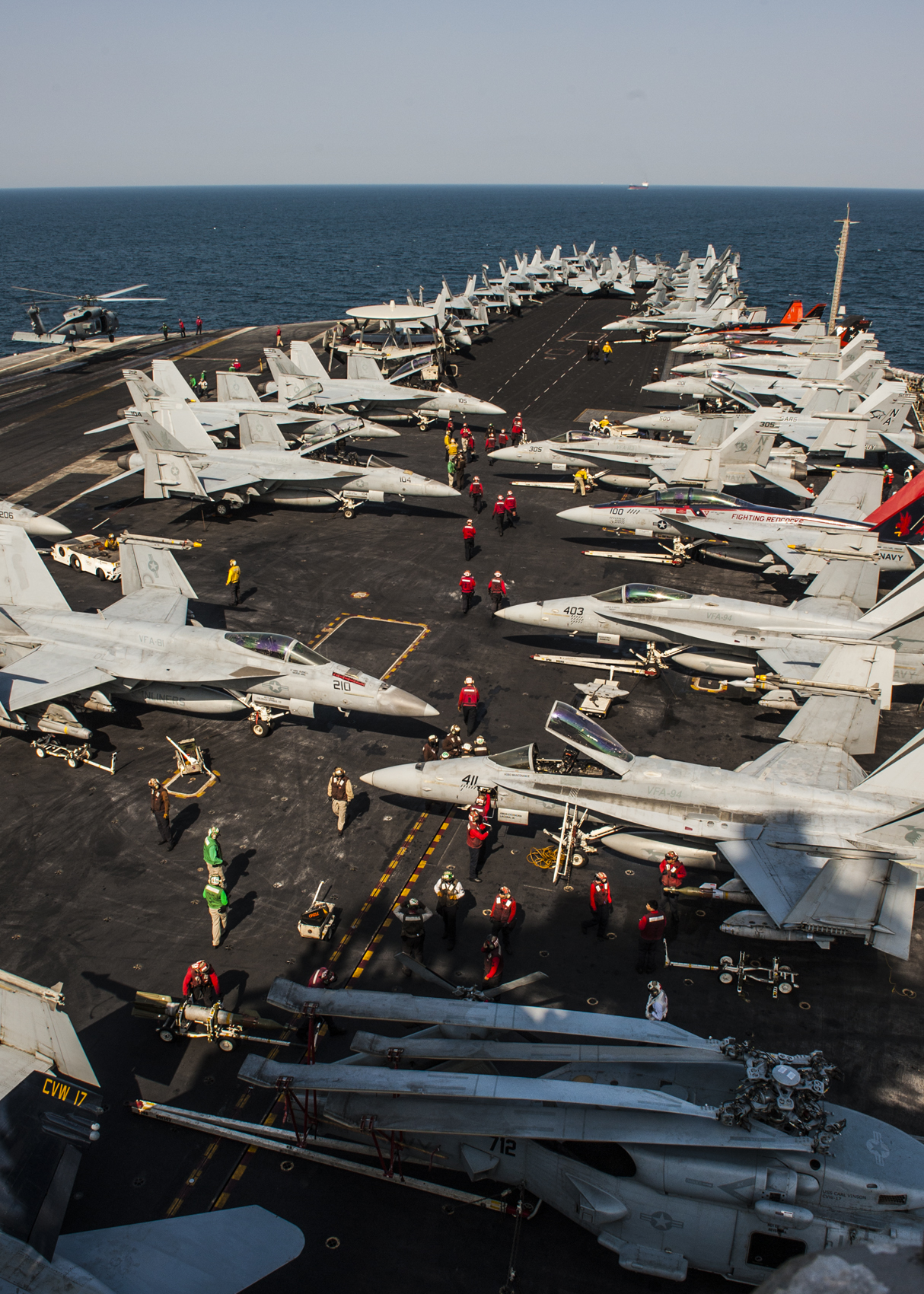 U.S. Navy sailors aboard the aircraft carrier USS Carl Vinson (CVN-70) prepare for flight operations. Carl Vinson, with assigned Carrier Air Wing 17, was deployed to the area supporting maritime security operations, strike operations in Iraq and Syria, and theater security cooperation efforts in the U.S. 5th Fleet area of responsibility.